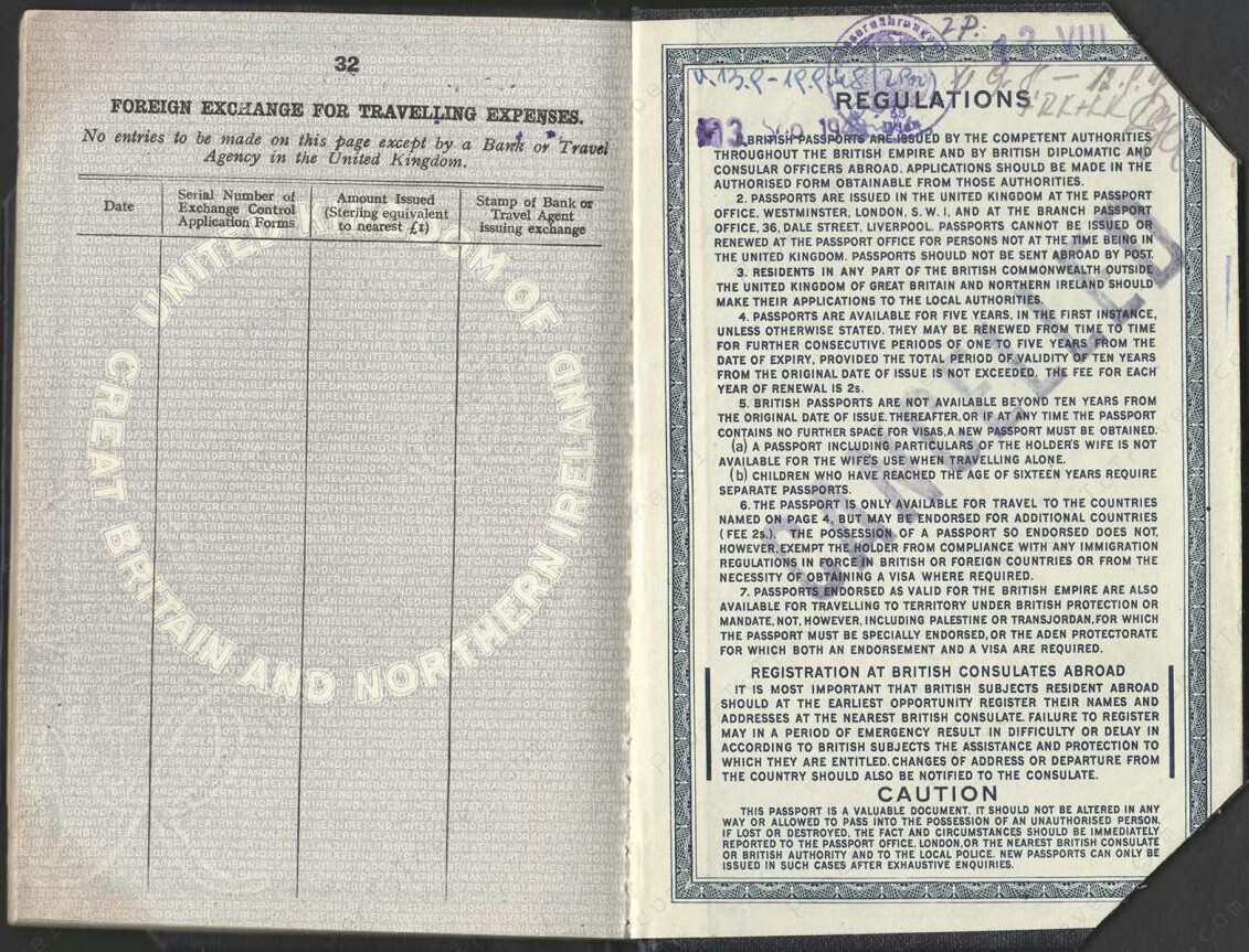 British Passport 1948, Foreign Exchange for Travelling Expenses page without 'Exchange Control Act 1947' notation